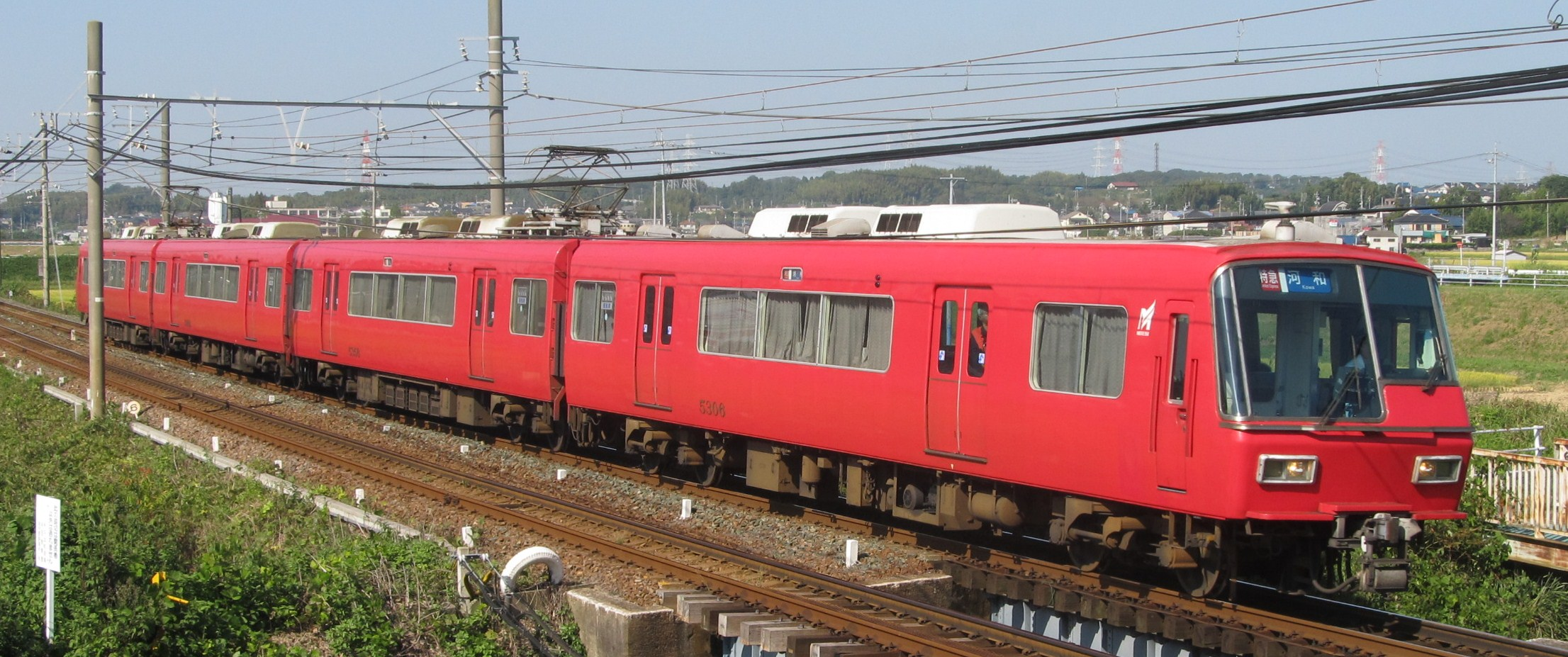 Meitetsu 5300 series. Limited Express bound for Kōwa.